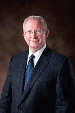 This is a photo of Darrell Castle, the 2008 Constitution Party (a United States third party) Vice Presidential candidate, and 2016 presidential candidate.